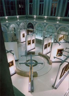 "Ancient and modern Rome of Cardinal Giulio Alberoni" exihibition in Palazzo Galli